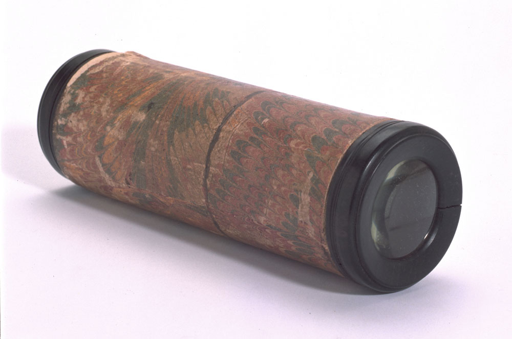 Description